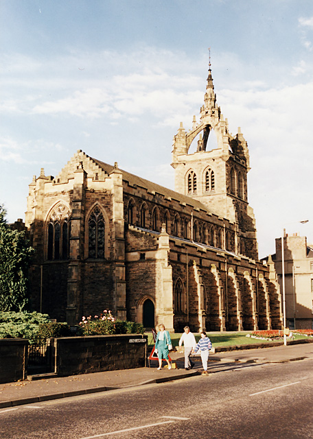 St. Leonard's-in-the-Fields A Church of Scotland building with the classical crown on top of the tower, located on Marshall Place.